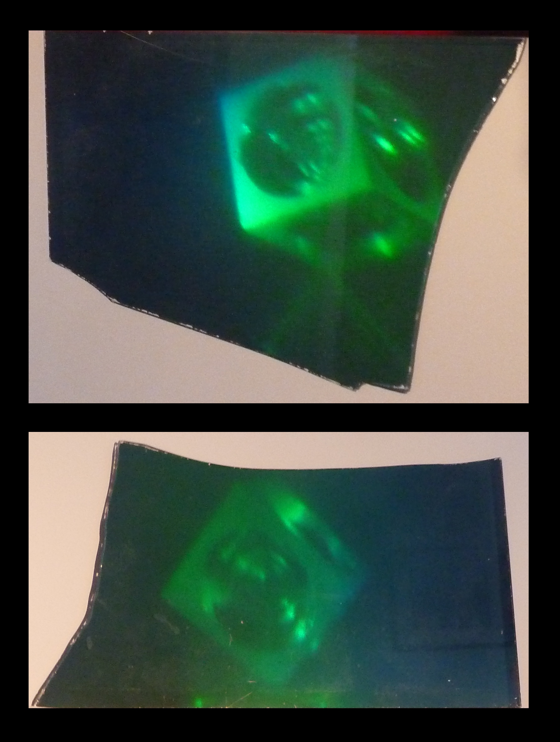 Photograph of holographic reconstructions of two different sections of a broken hologram.